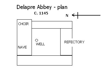 A conjectural plan of Delapre Abbey between 1145-1538 - based on other Abbeys